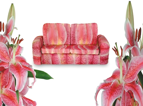 Sofa made of flower petals; used in the bestselling Fairie-ality book series by David Ellwand